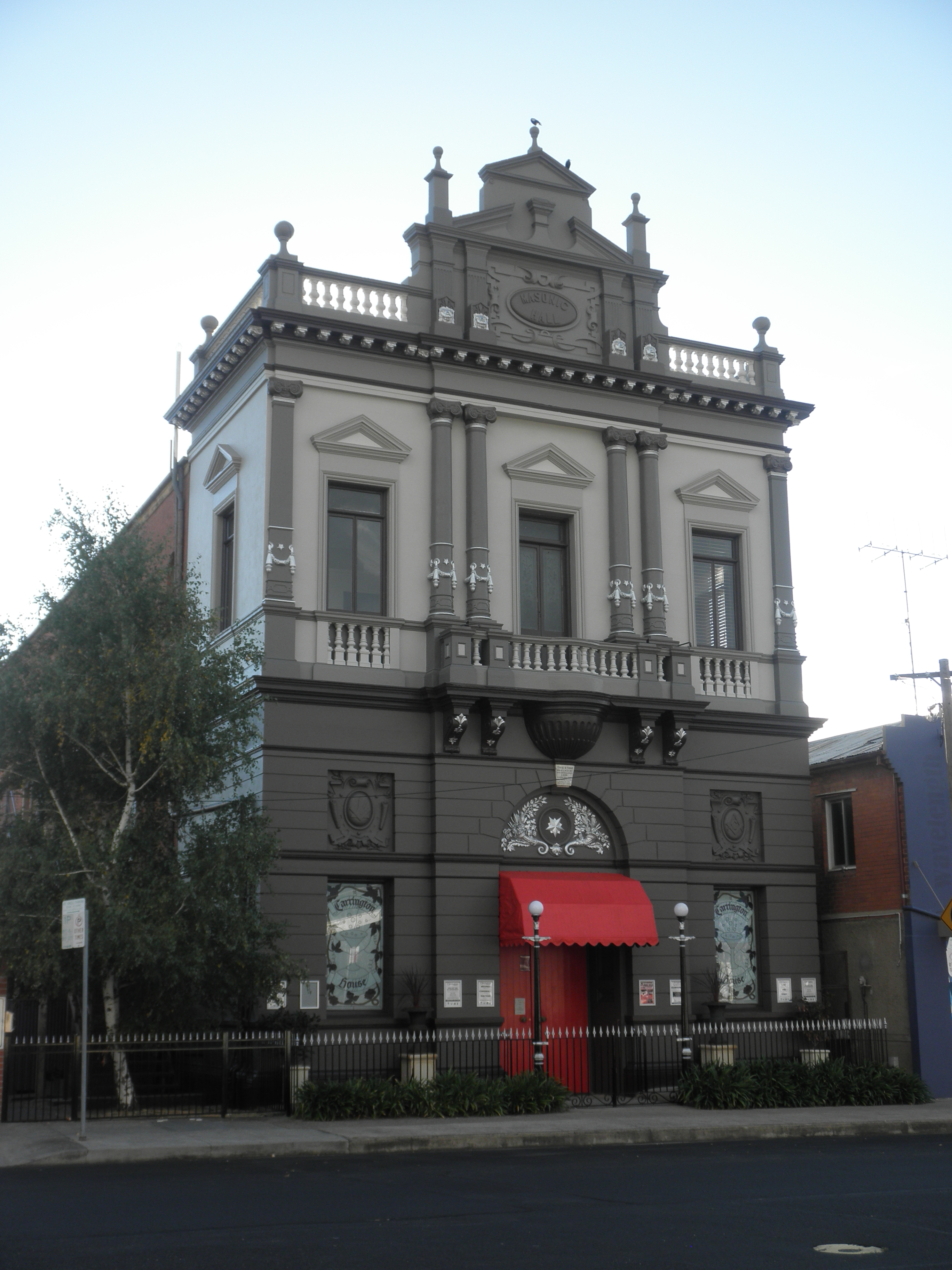 Carrington House, Bathurst, New South Wales, Australia. Previously Masonic Hall built 1889 in the Italianate architecture style with stuccoed and decorated surfaces.